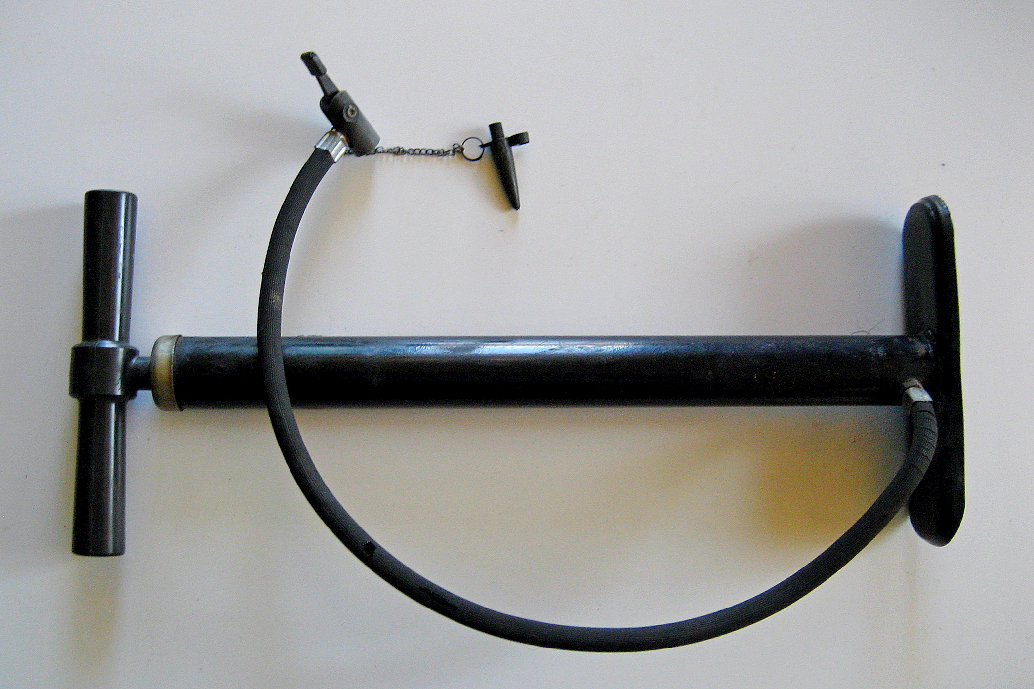 Piston pumps